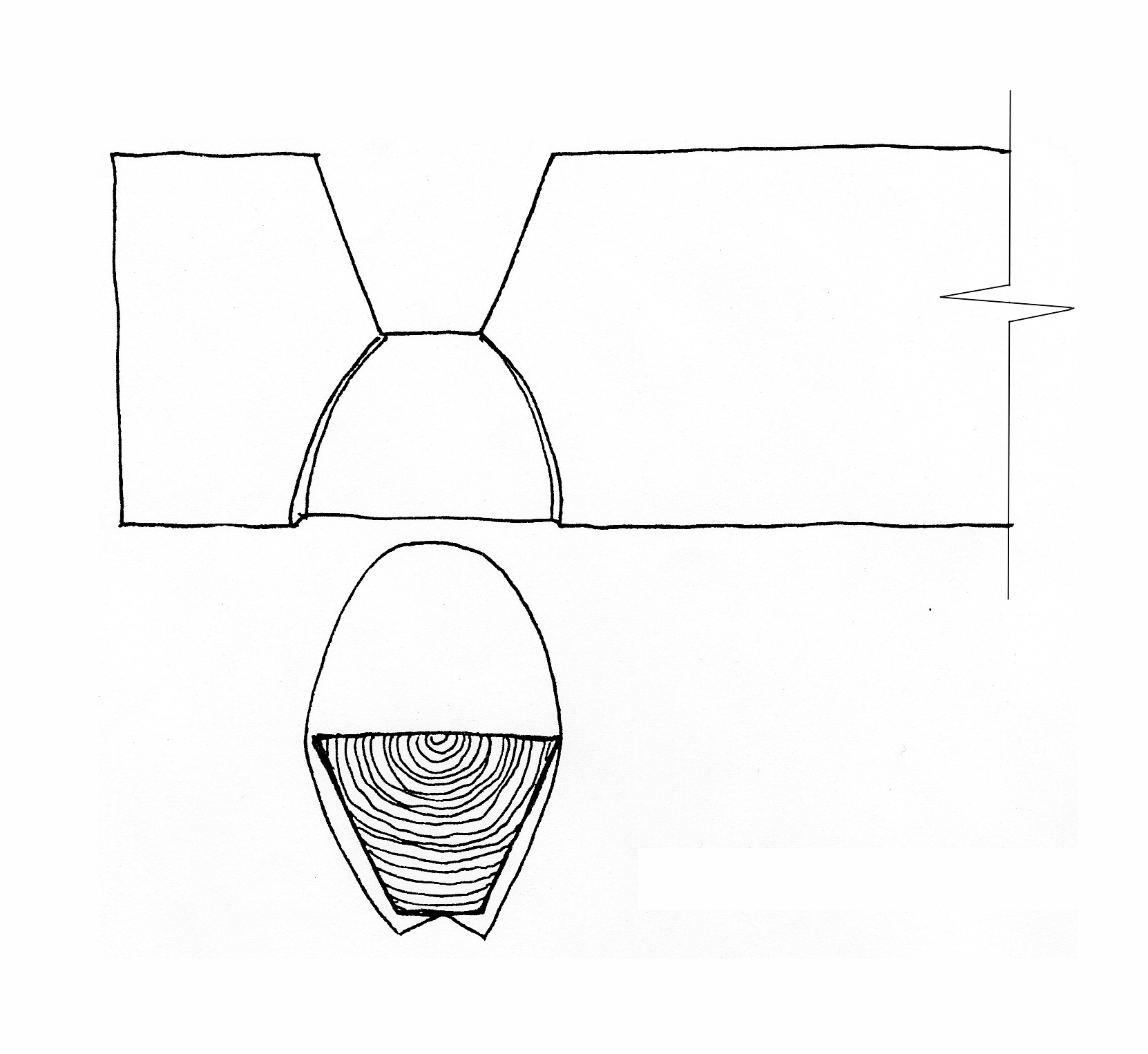 Notch used in medieval log construction in Norway, "Findalslaft".